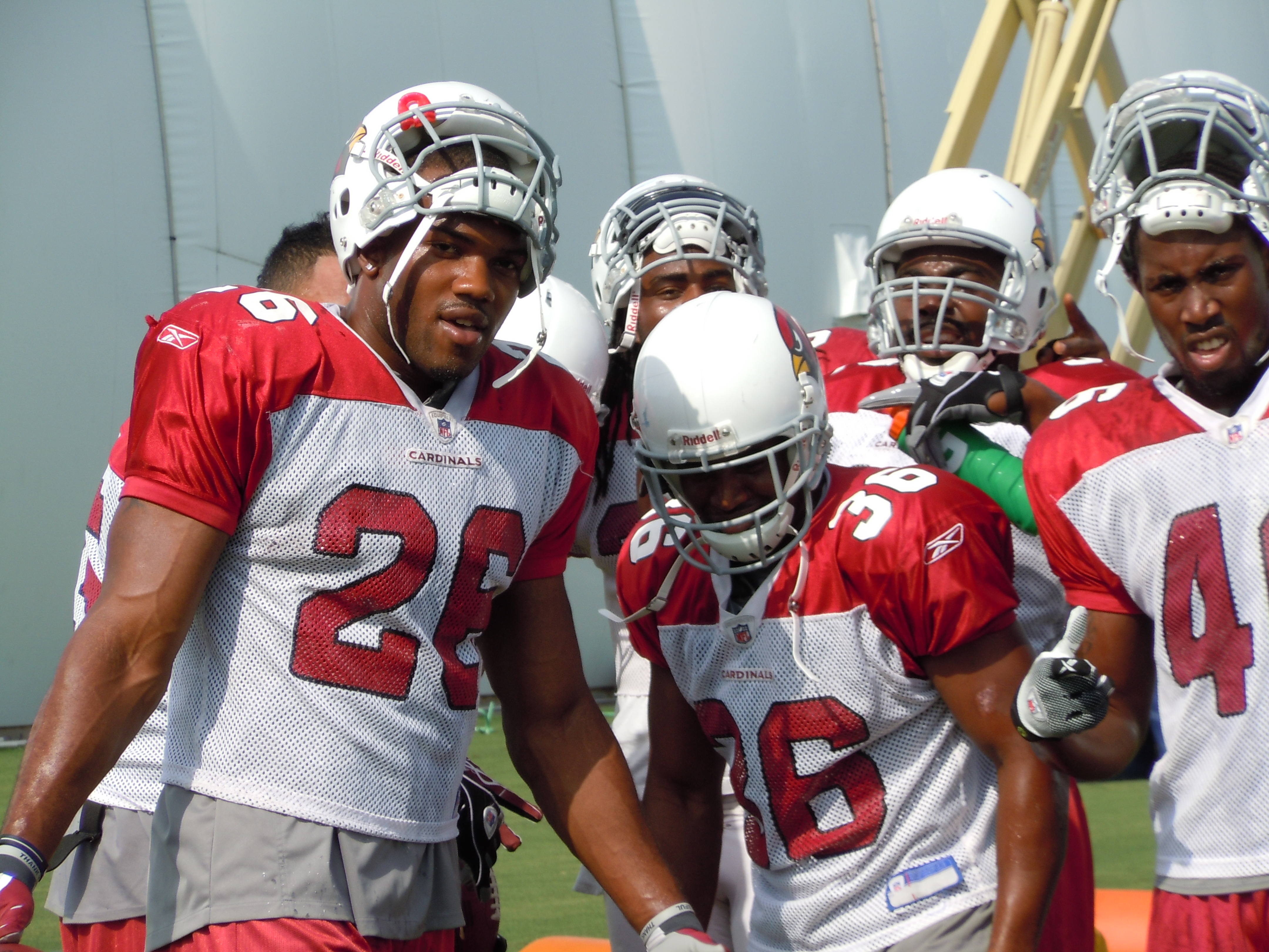 Beanie Wells and Cardinals runningbacks